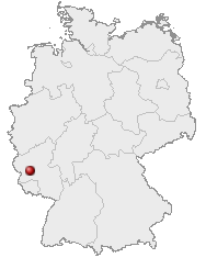 Location of Kröv, Germany